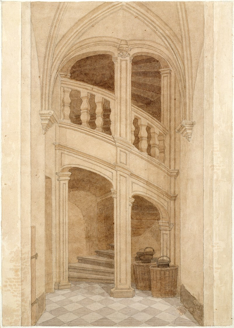 Weyer, Johann Peter, Tafel 33: Treppenturm des Jabacher Hofes, Sternengasse 25, aus: Kölner Alterthümer, Band XXVIII, 1853, Zeichnungen von architectonischen Details in Cöln, Köln